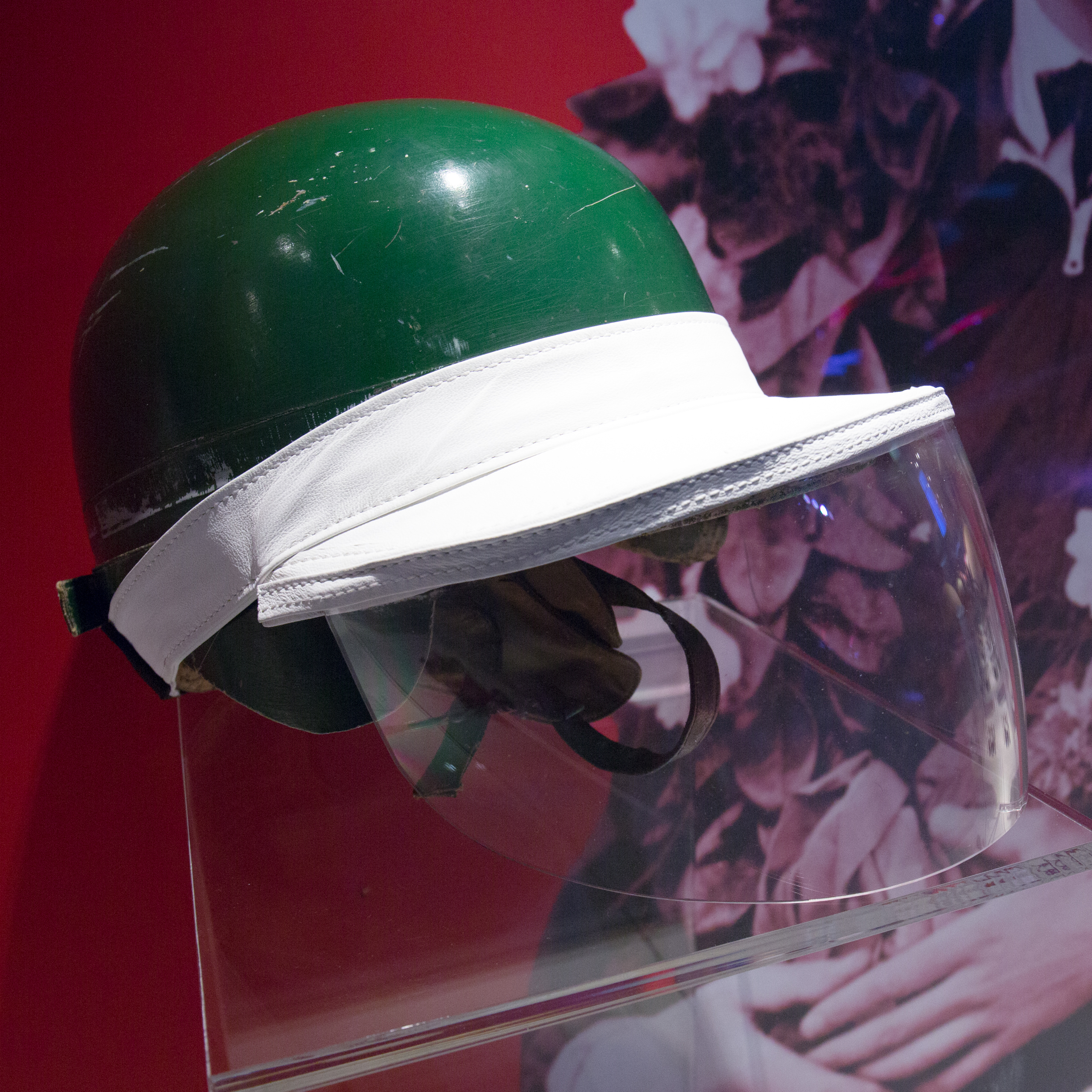 Museo Ferrari: Mike Hawthorn's helmet with rain visor, in the 1950s.